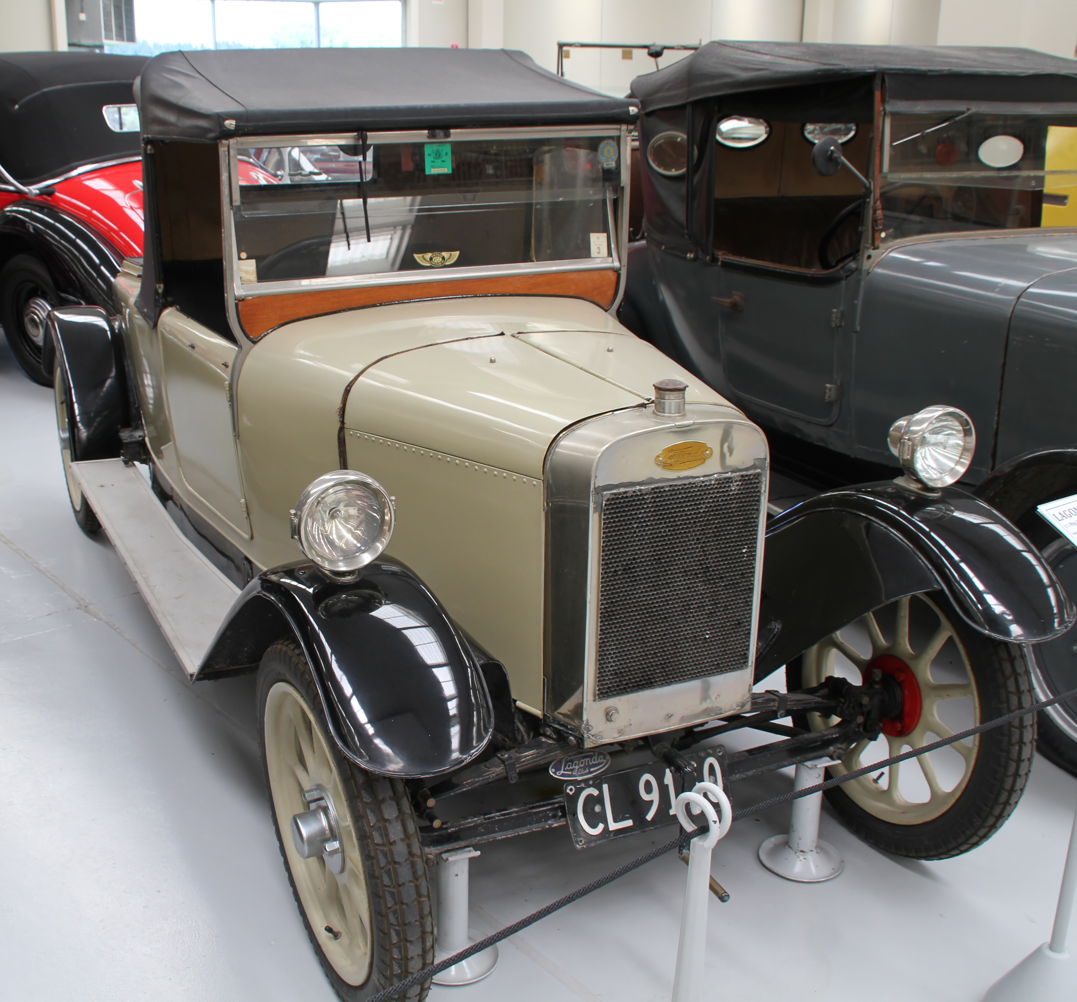 1922 Lagonda 11.9hp open two seater with dickey